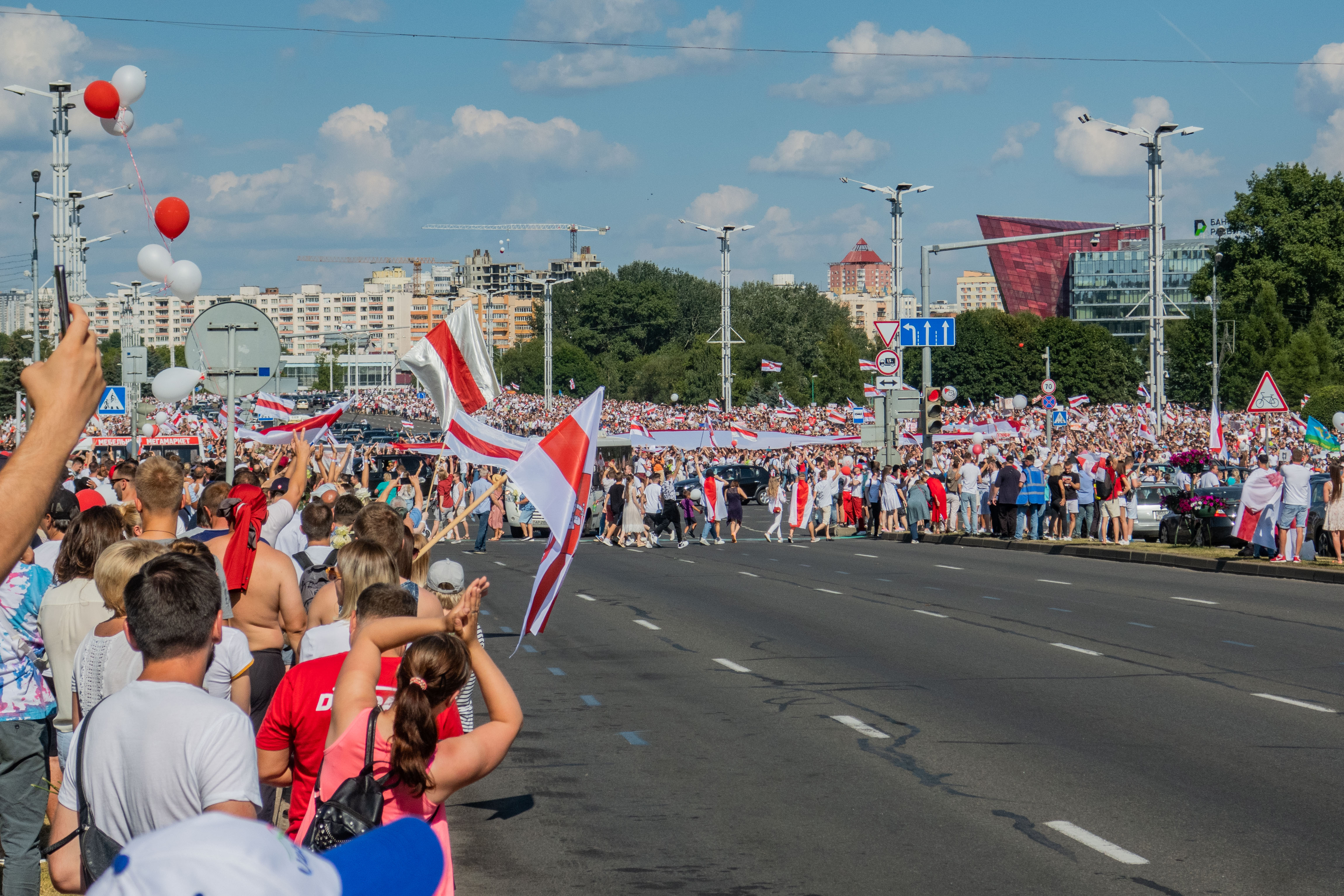 Protest rally against Lukashenko, 16 August. Minsk, Belarus